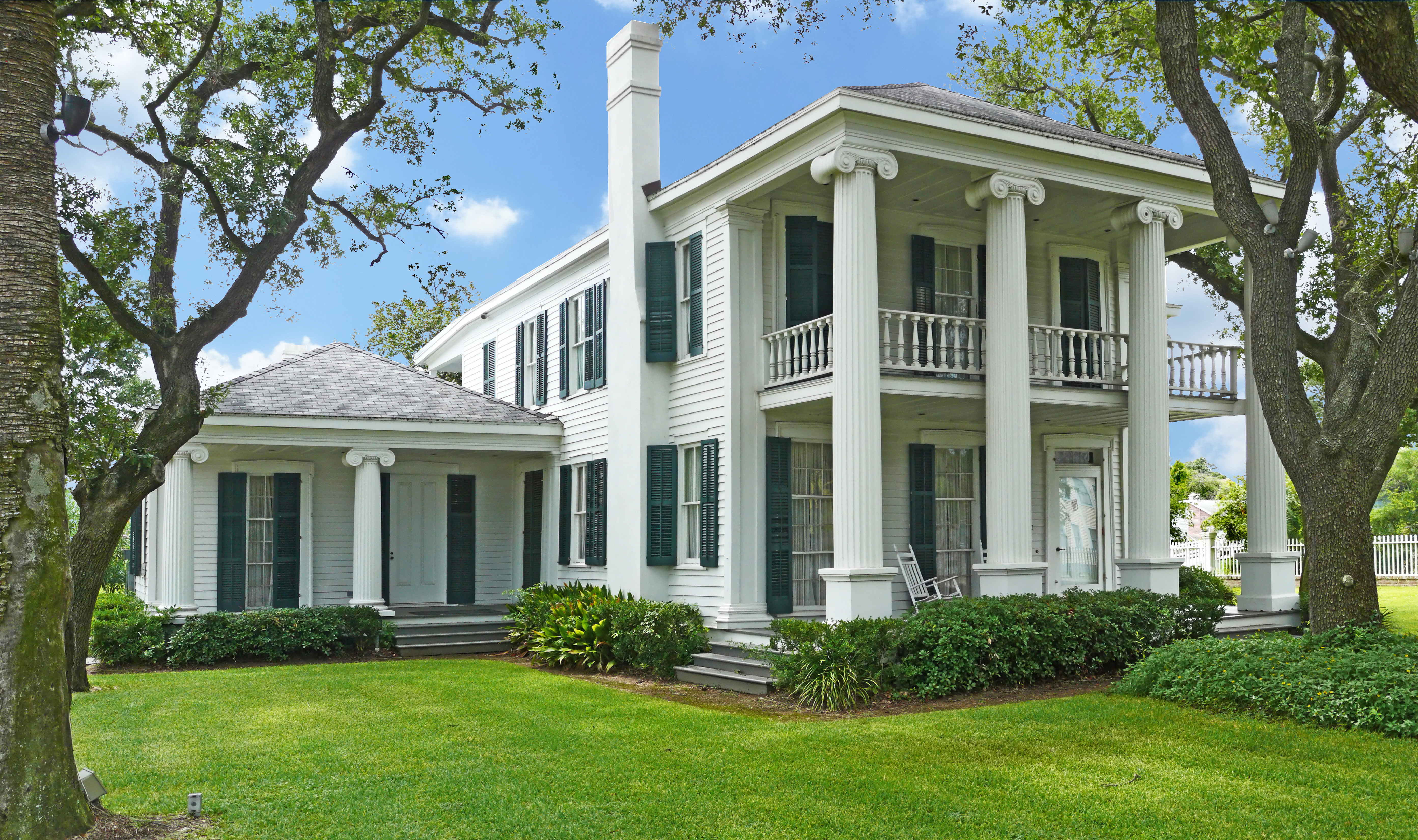 Michel Menard was Founder of the city of Galveston. A signer of the Texas Declaration of Independence. Member of the Congress of the Republic of Texas. His home was later sold to the Allen brothers, founders of Houston.